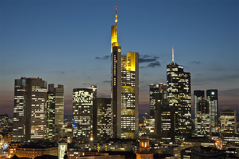 Skyline of Frankfurt am Main (Germany) at dusk